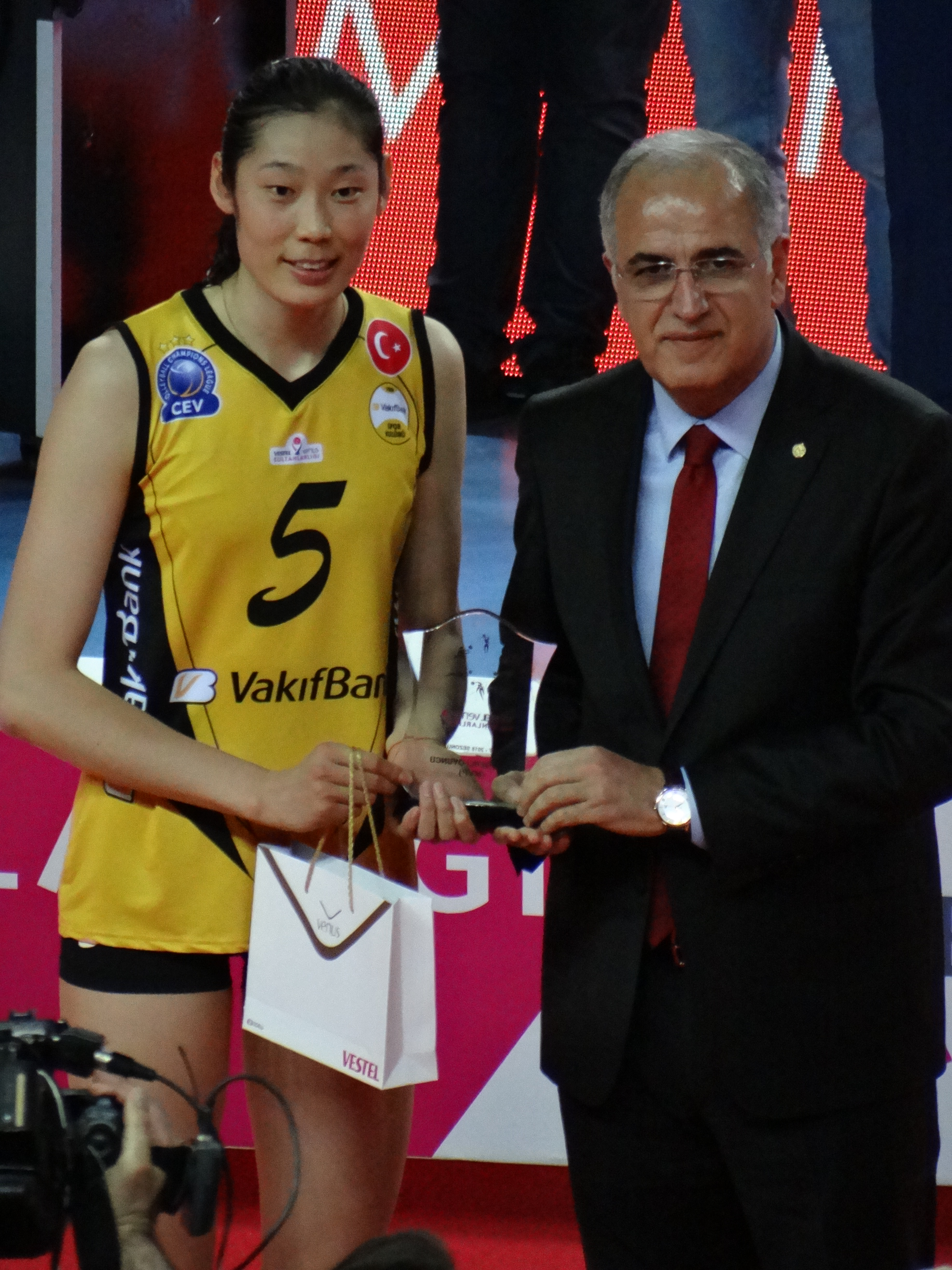 Zhu Ting 5 Vakıfbank SK TWVL 20180426